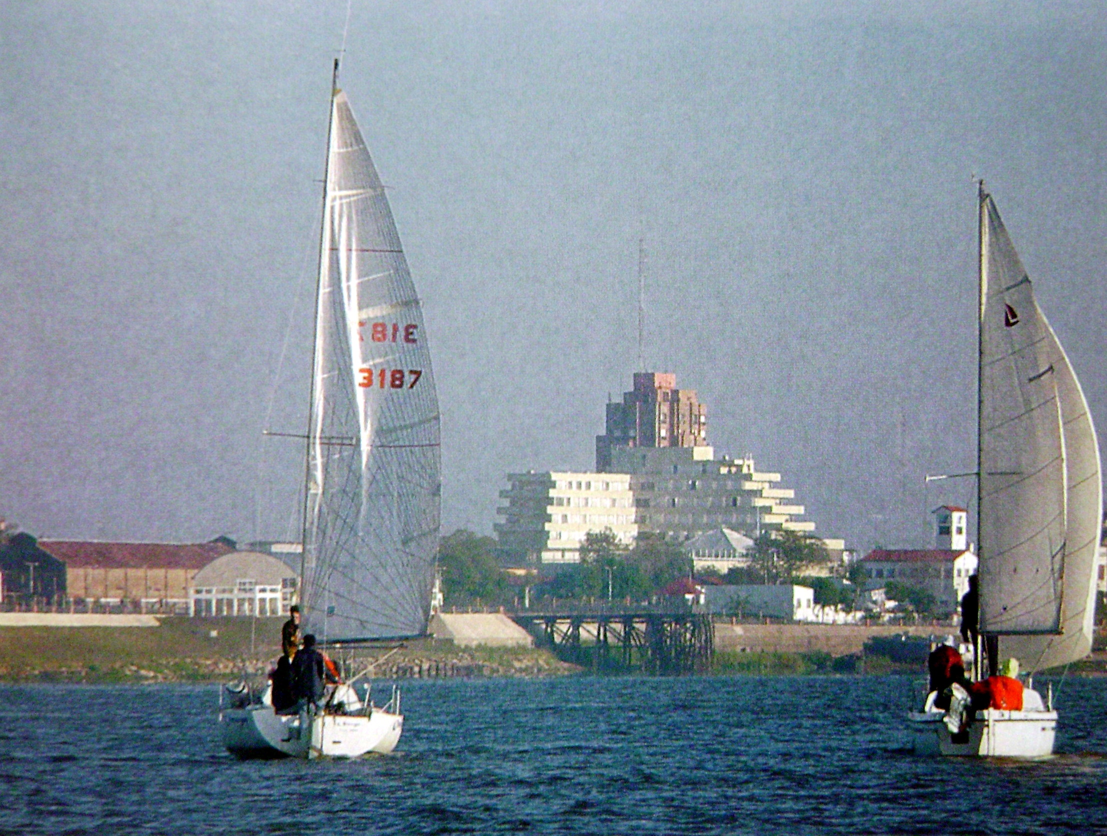 Regata on the Paraguay River, with downtown Formosa (Argentina) and the Hotel Internacional de Turismo (1970) in the background.